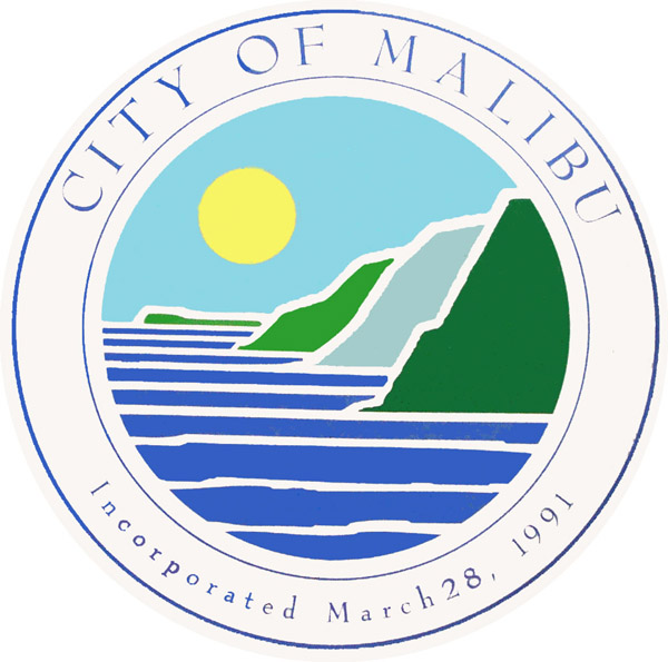 Seal of Malibu, California